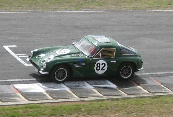 TVR Tuscan V8 at Mallala